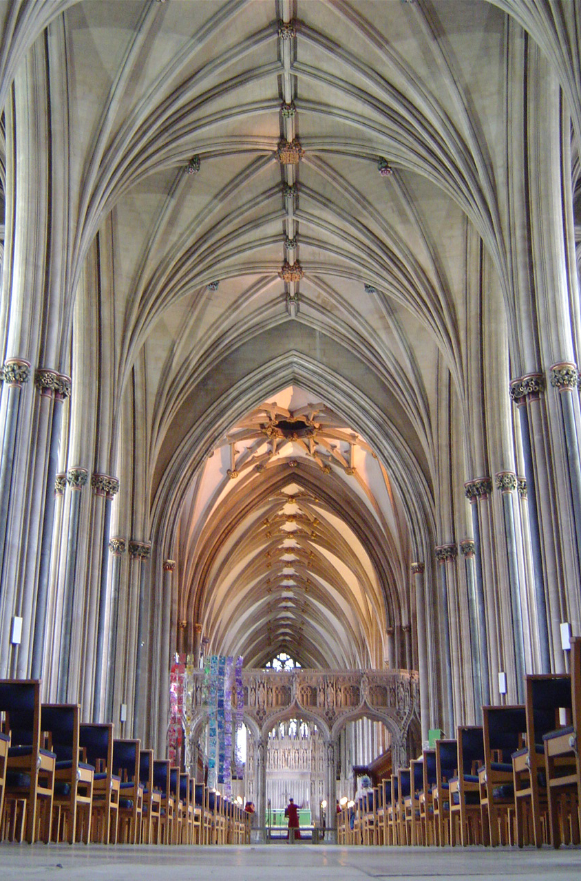 Interior of Bristol Cathedral, UK